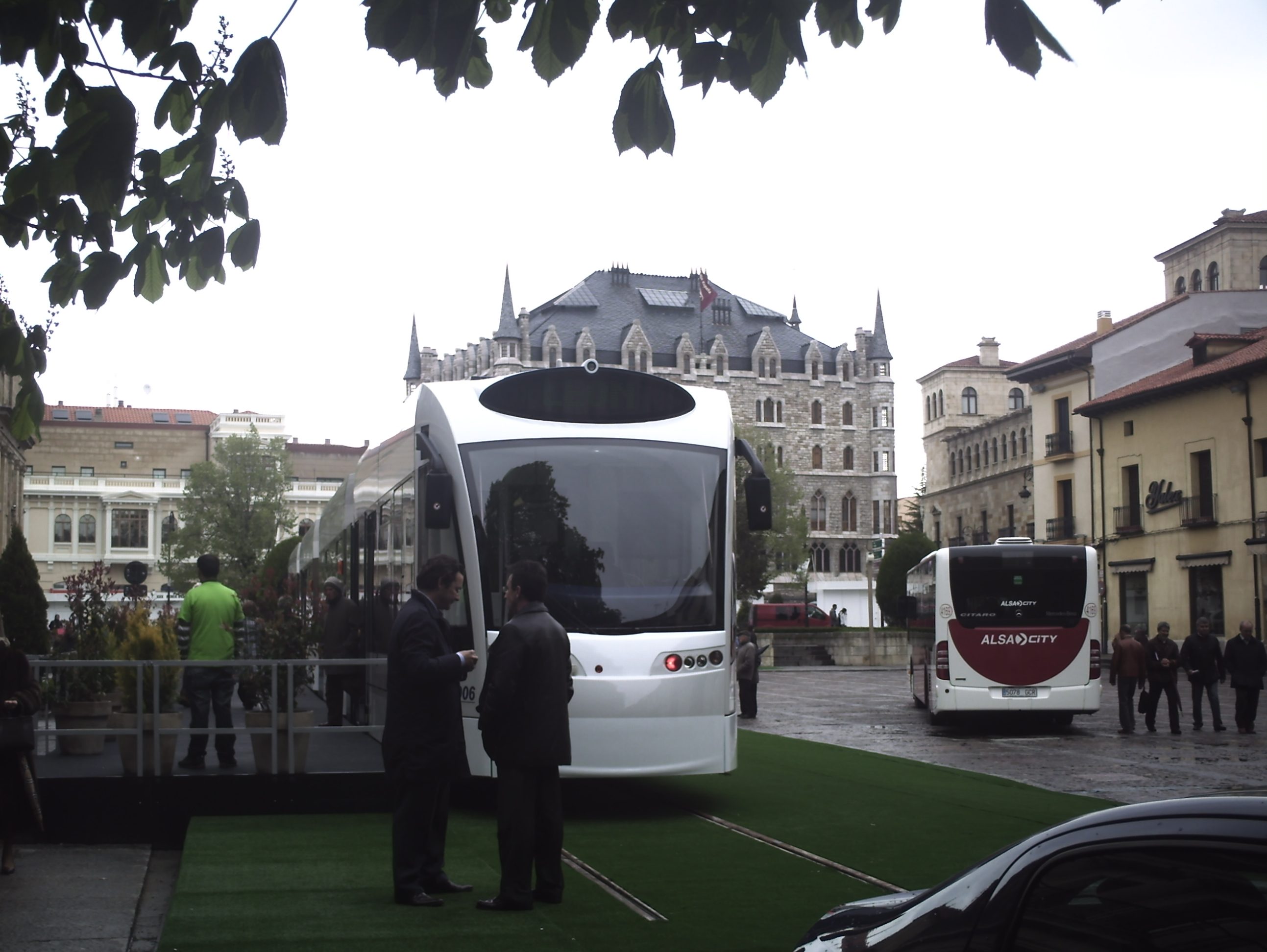 Presentation of the Sustainable Urban Mobility Plan (PMUS) from Leon. Siemens Combino Plus tram (#...06).